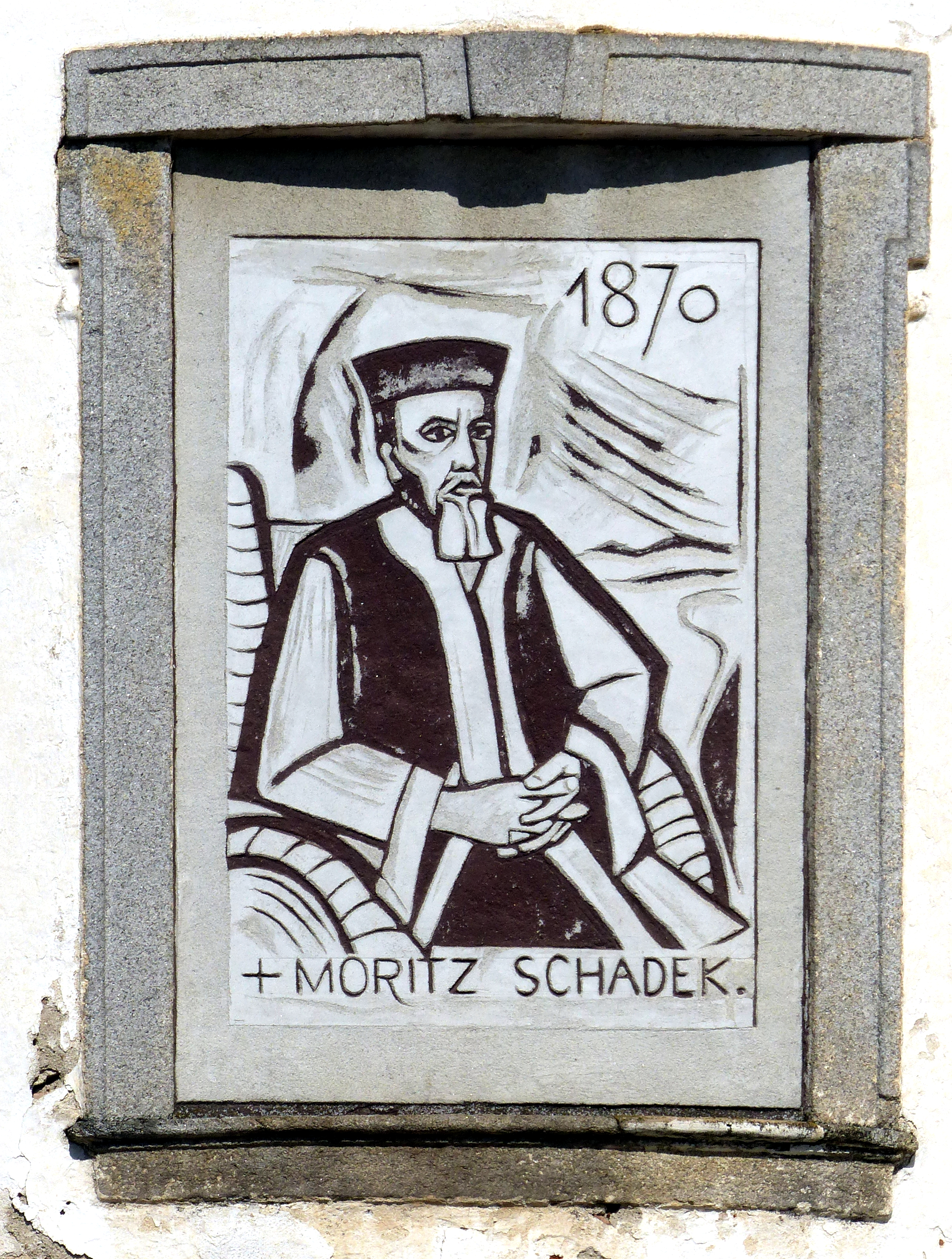 Dobersberg castle ( Lower Austria ). Memorial to poet Moritz Schadek.